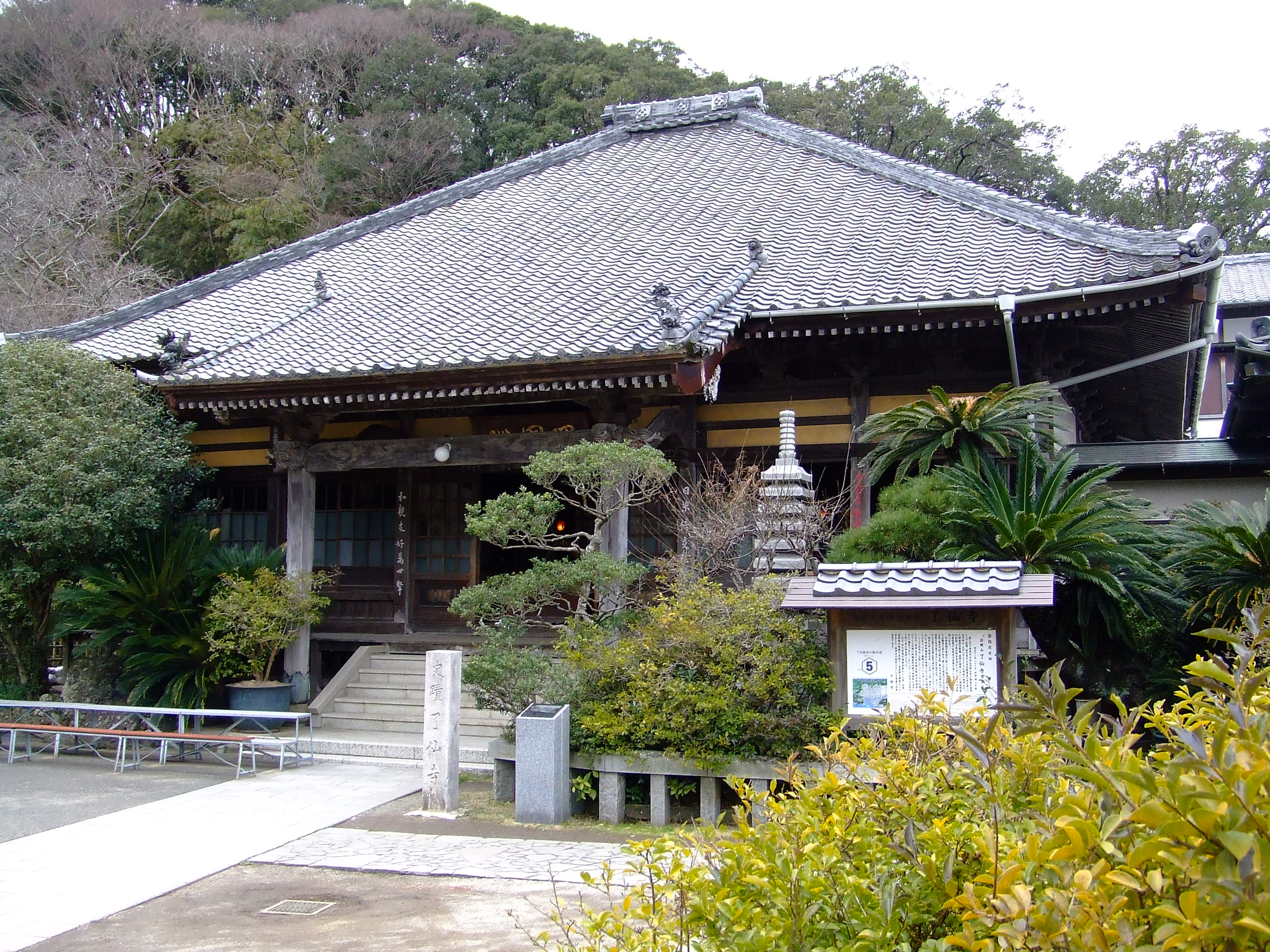 The Ryosenji temple in Shimoda, Shizuoka Prefecture, Japan, where the Treaty of Amity and Commerce between Japan and the US was signed in 1858. I took this photo with a digital camera on 24th February 2007.